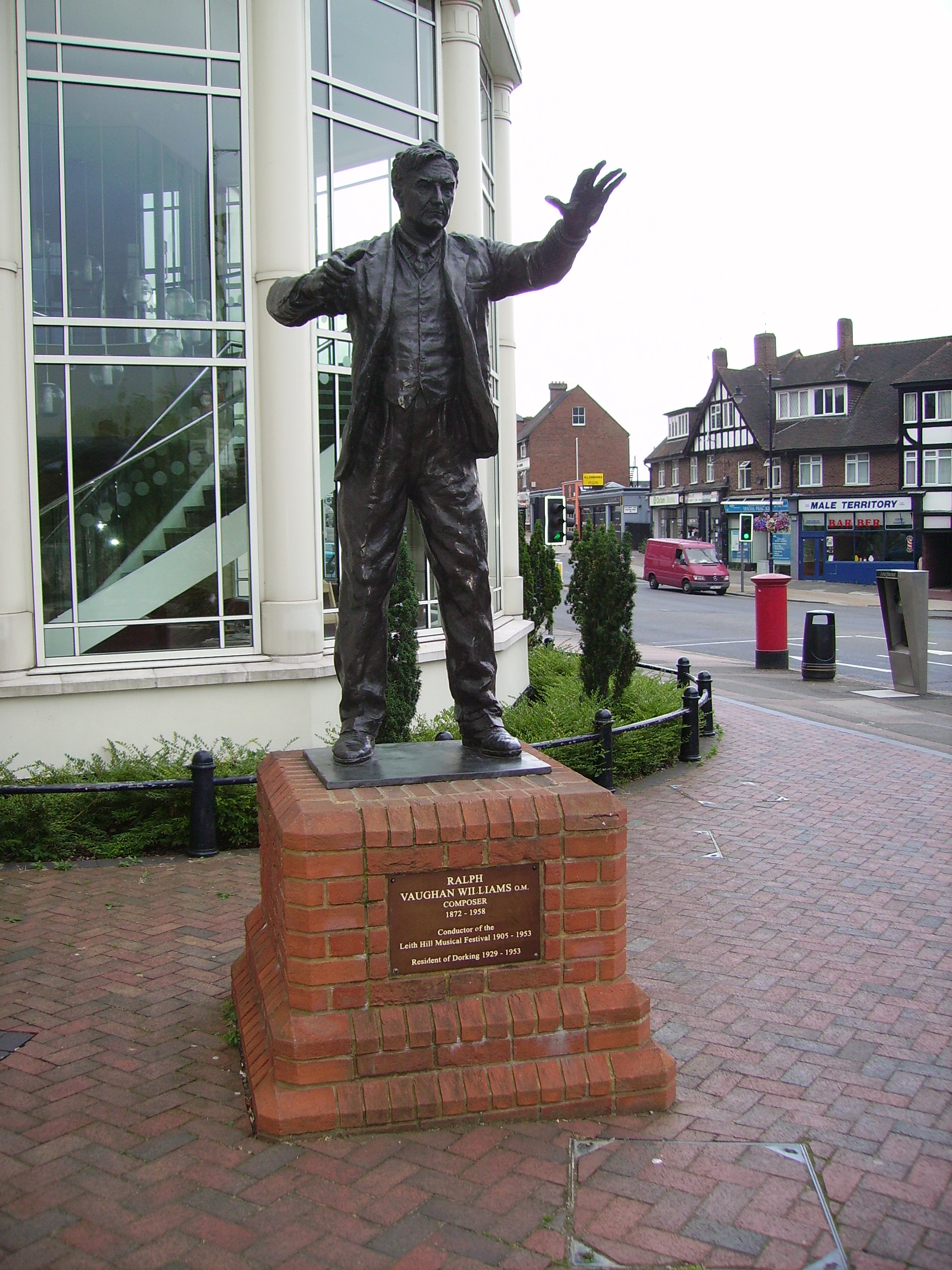 view of Dorking in Surrey, United Kingdom